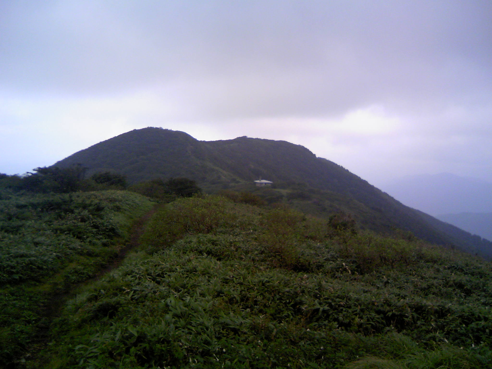 Mount Nagi (Nagisan)'s summit seen from the southwest.